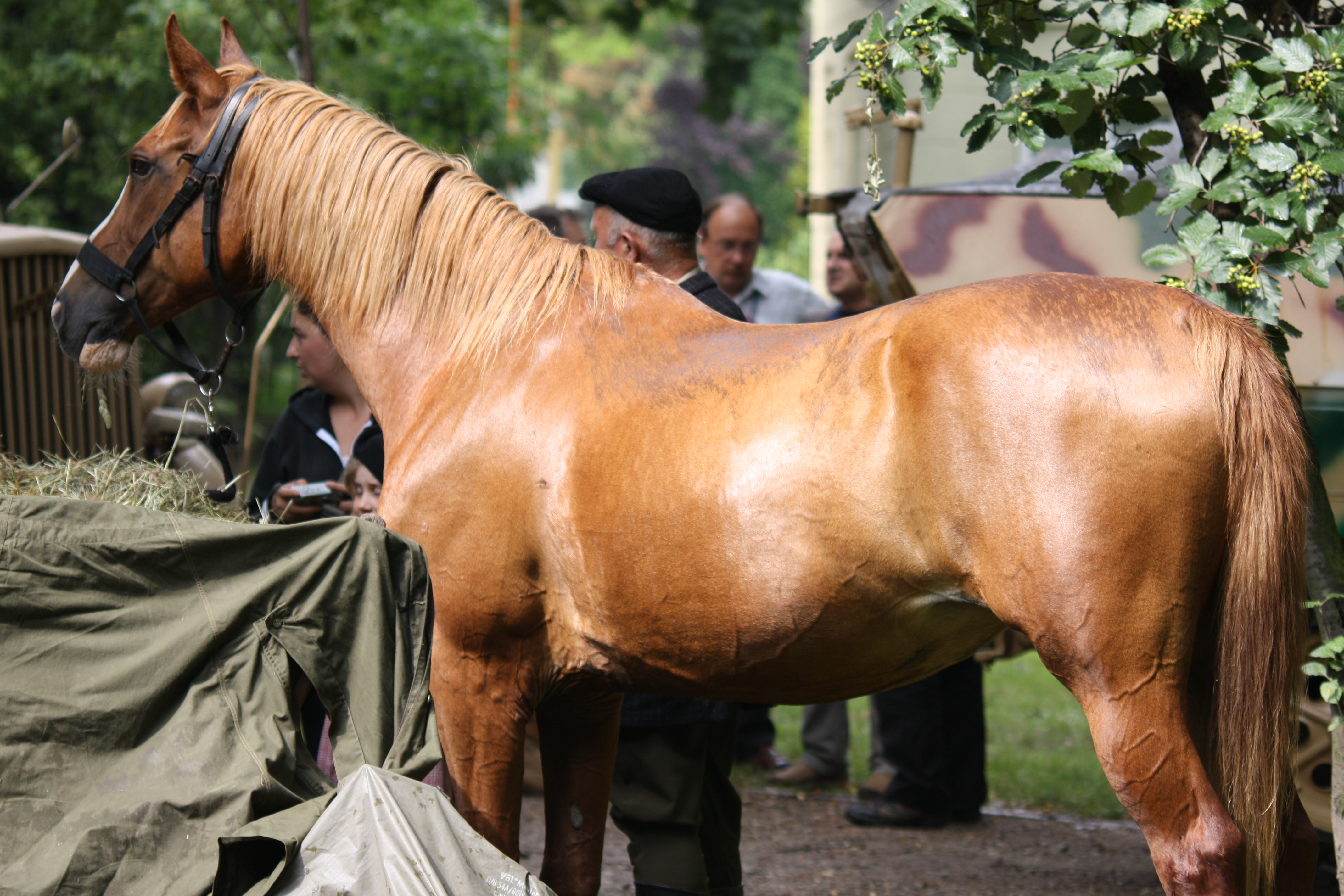 Warsaw Uprising reenactments - Mokotów'44